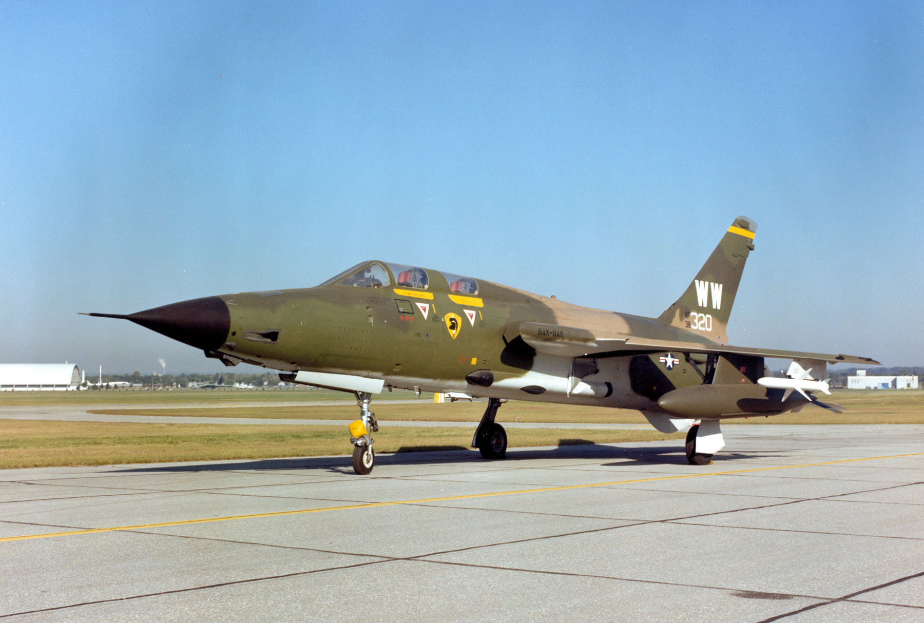 DAYTON, Ohio -- Republic F-105G Thunderchief at the National Museum of the United States Air Force.